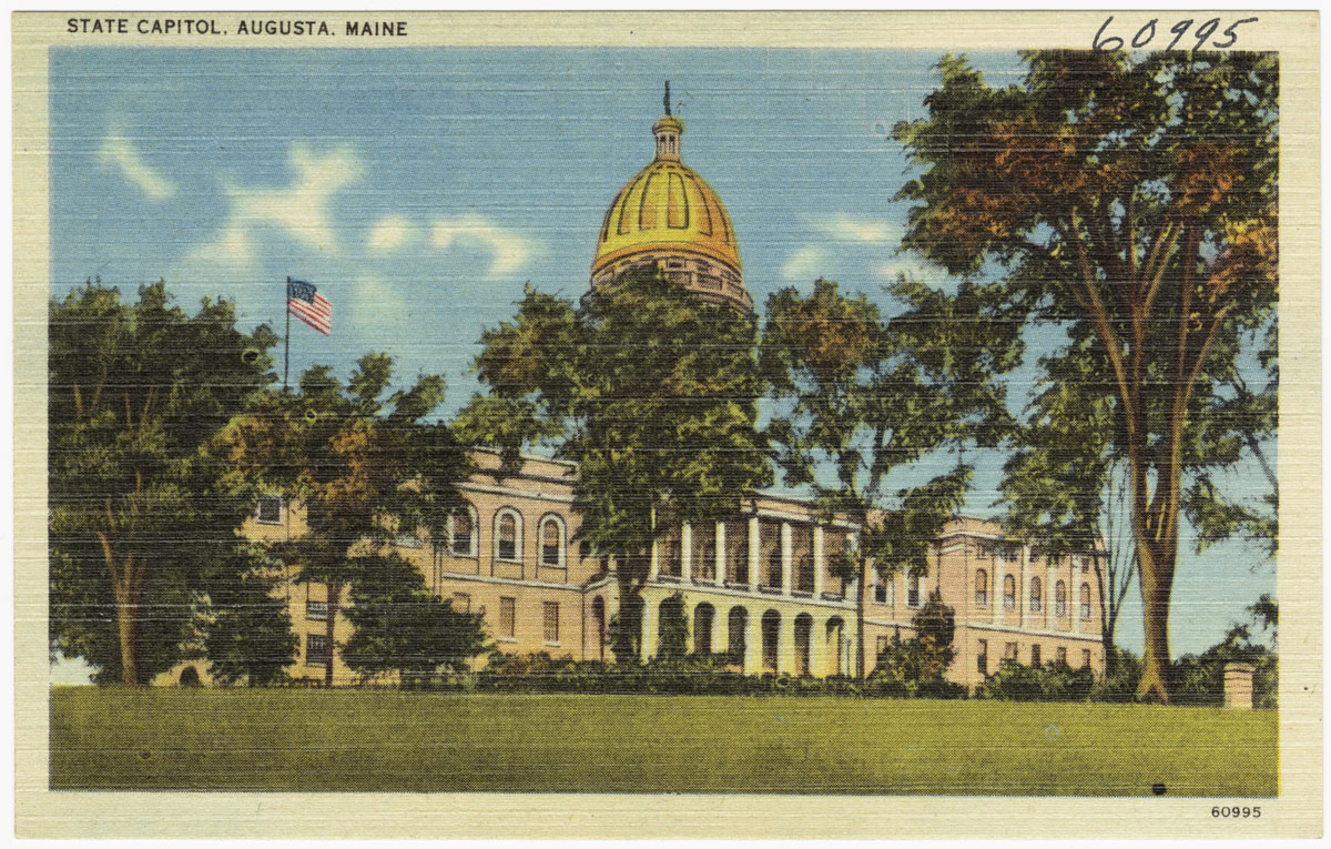 Boston Public Library - Old postcard of the state capitol building in Augusta, Maine